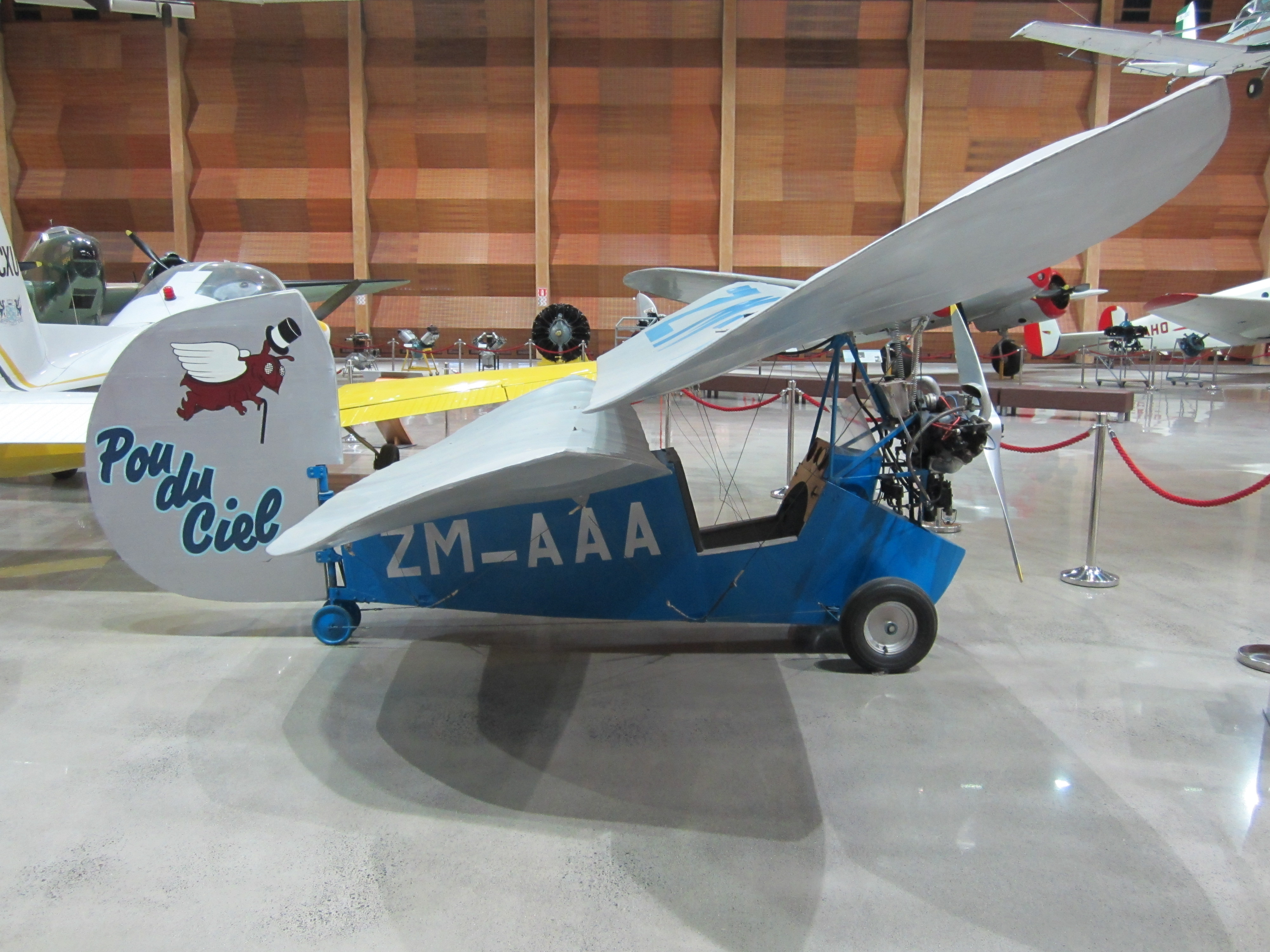 Side view of a Mignet HM-14 "Flying Flea" Pou du Ciel at MOTAT in Auckland